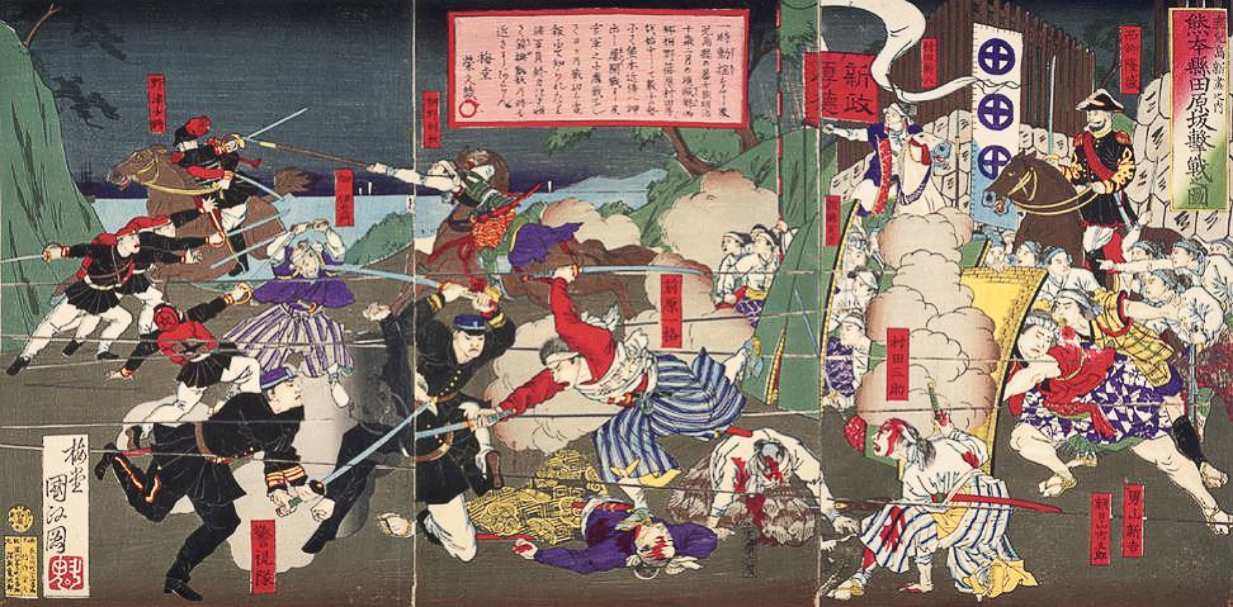 Battle of Tabaruzaka. Tabaruzaka (the biggest battleground in the war). On the left is the government army (political sword squadron), on the right is the Saigo army ("Kagoshima Shinkonouchi Kumamoto Prefecture Tabaruzaka Hunting Map", Umedo Kokusei, April Meiji 10 April)